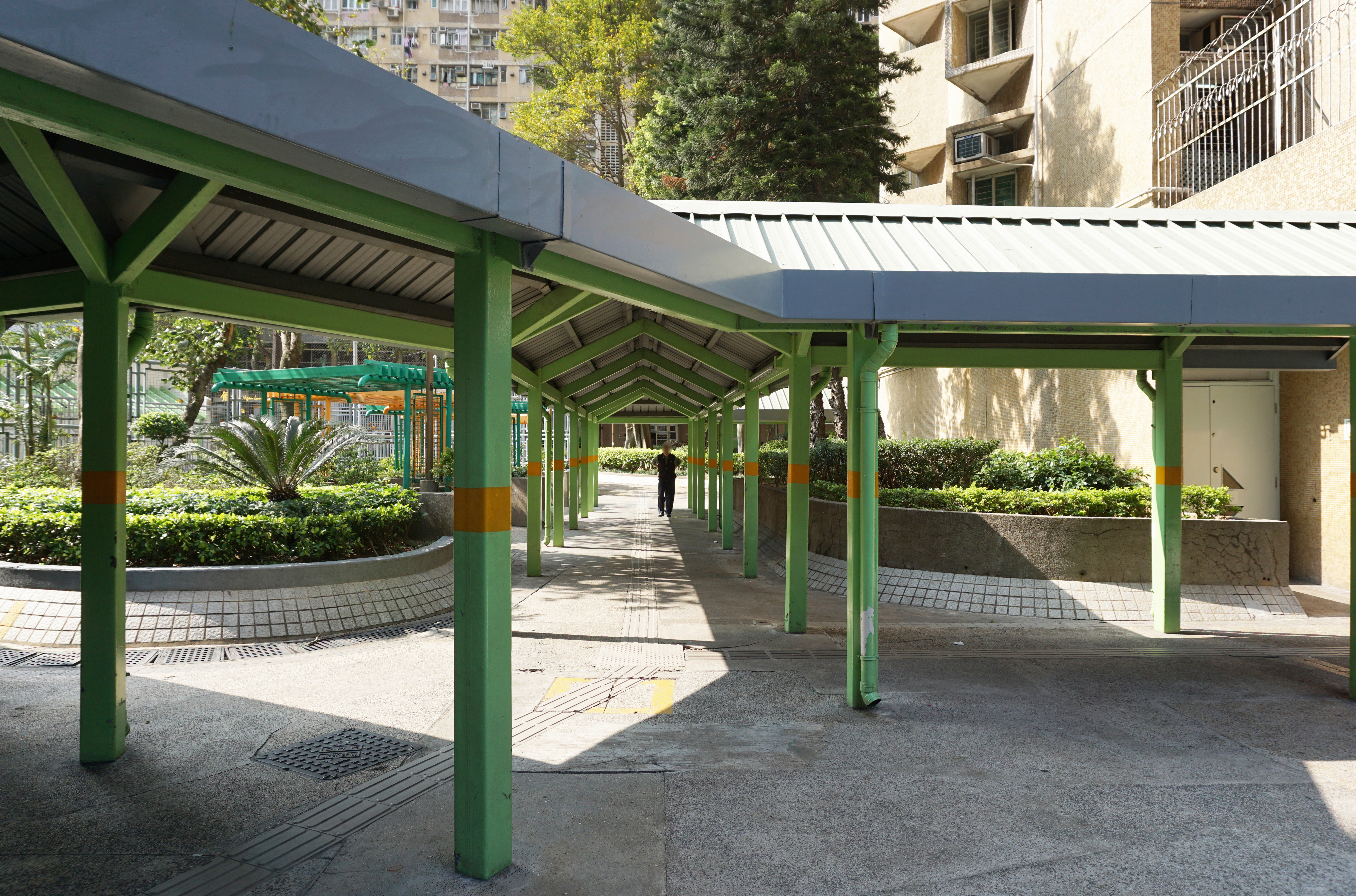 Tai Wo Estate in Tai Po, Hong Kong.